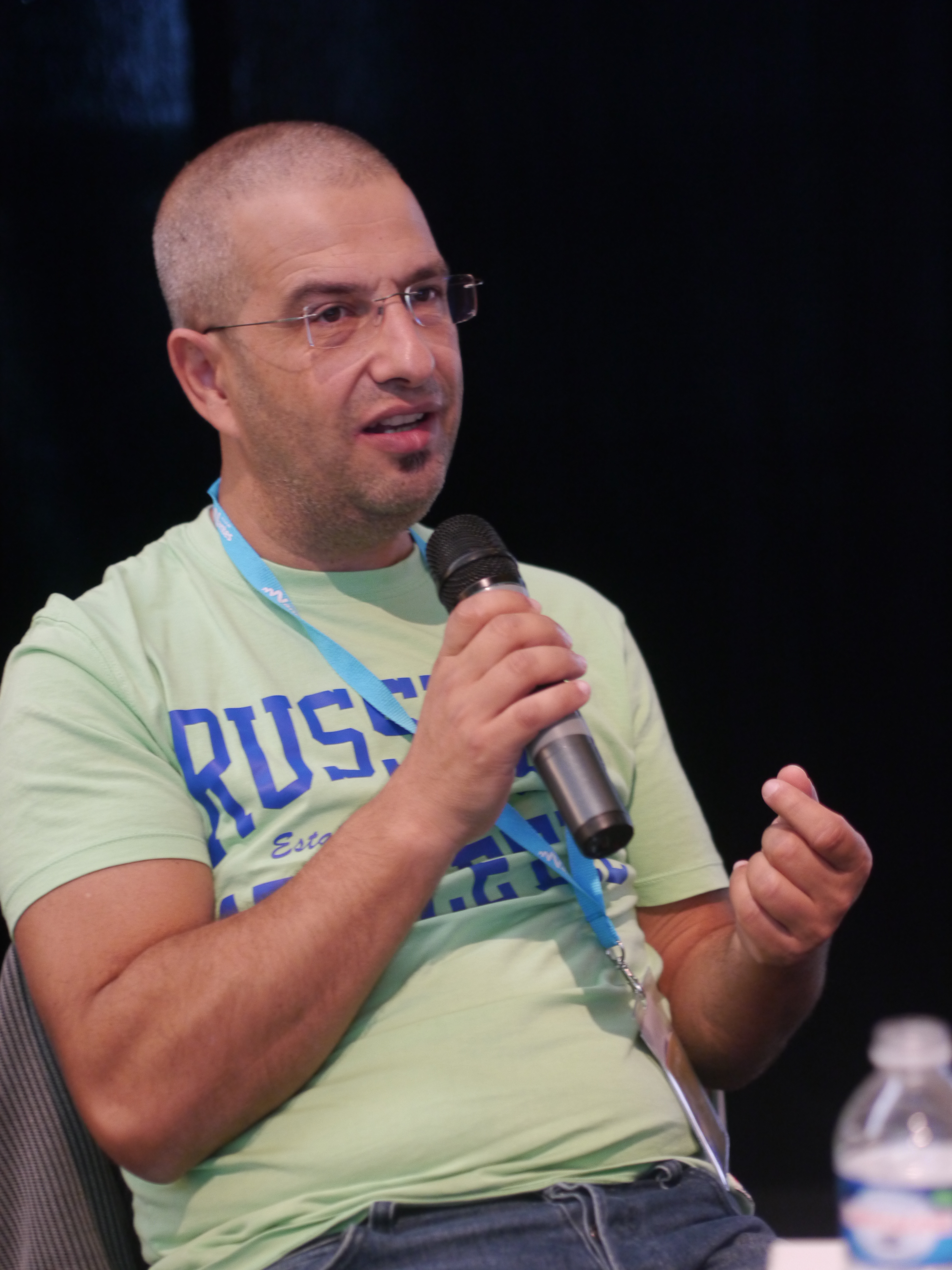 photograph taken at the 2014 edition of the "Utopiales" in Nantes.